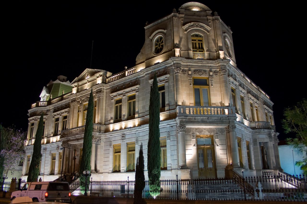 The Regional Museum of Durango (nicknamed as the Avocado Museum for the avocado tree that grows in its patio). It is sponsored by the Juárez State University of Durango, in Durango, Mexico.